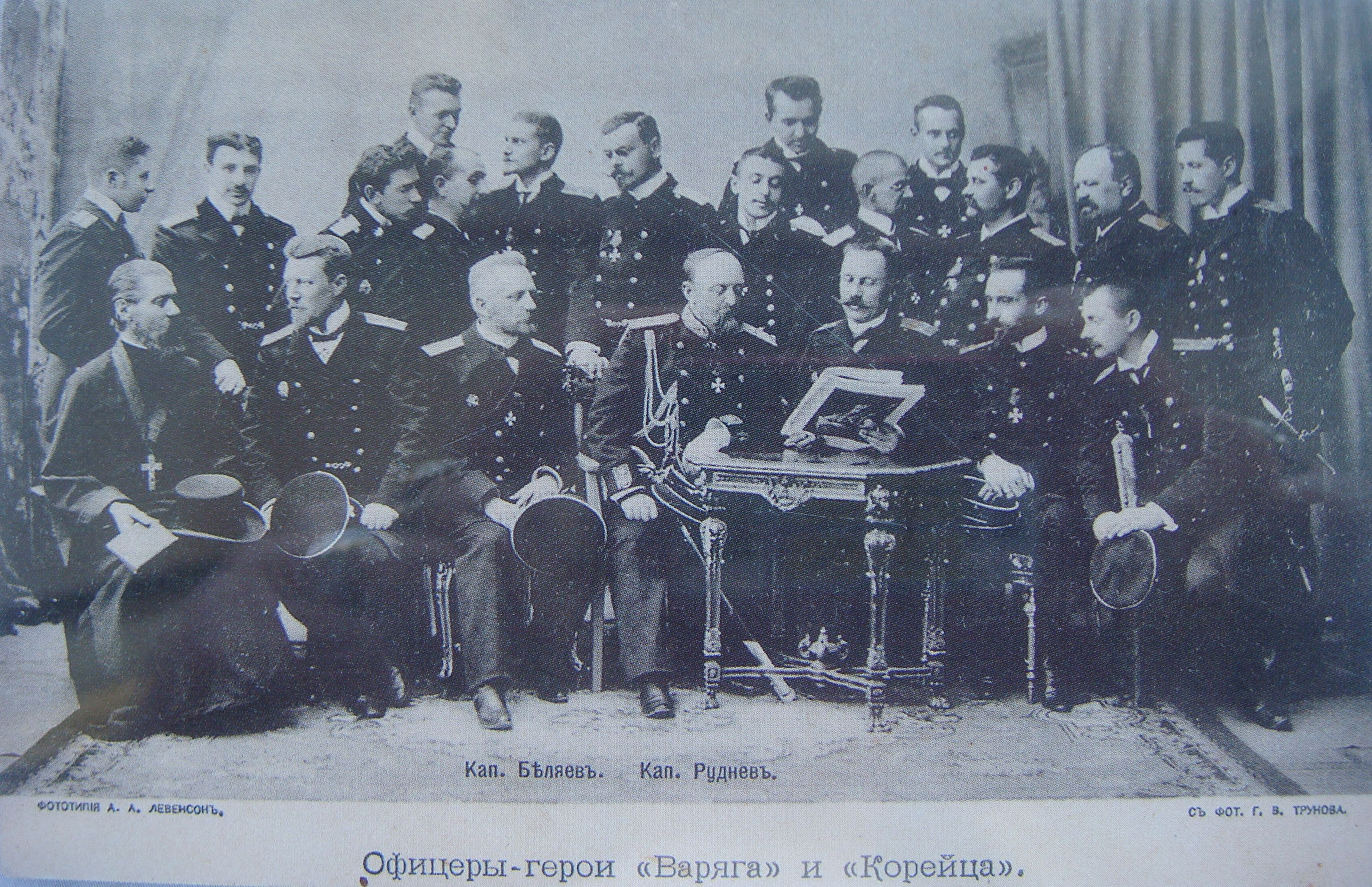 Navy officers of Russian Empire Navy ships Varyag & Koreez